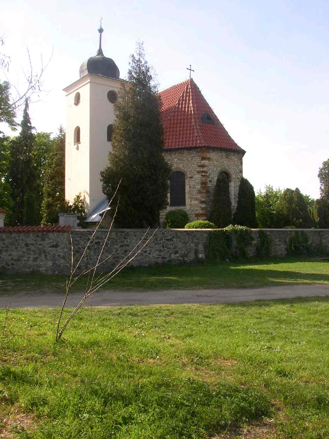 St. Clement church, view from SE side, Levý Hradec, Roztoky, Prague-West District, Czech Republic Photo taken by Miaow Miaow in May 2005, PD-self